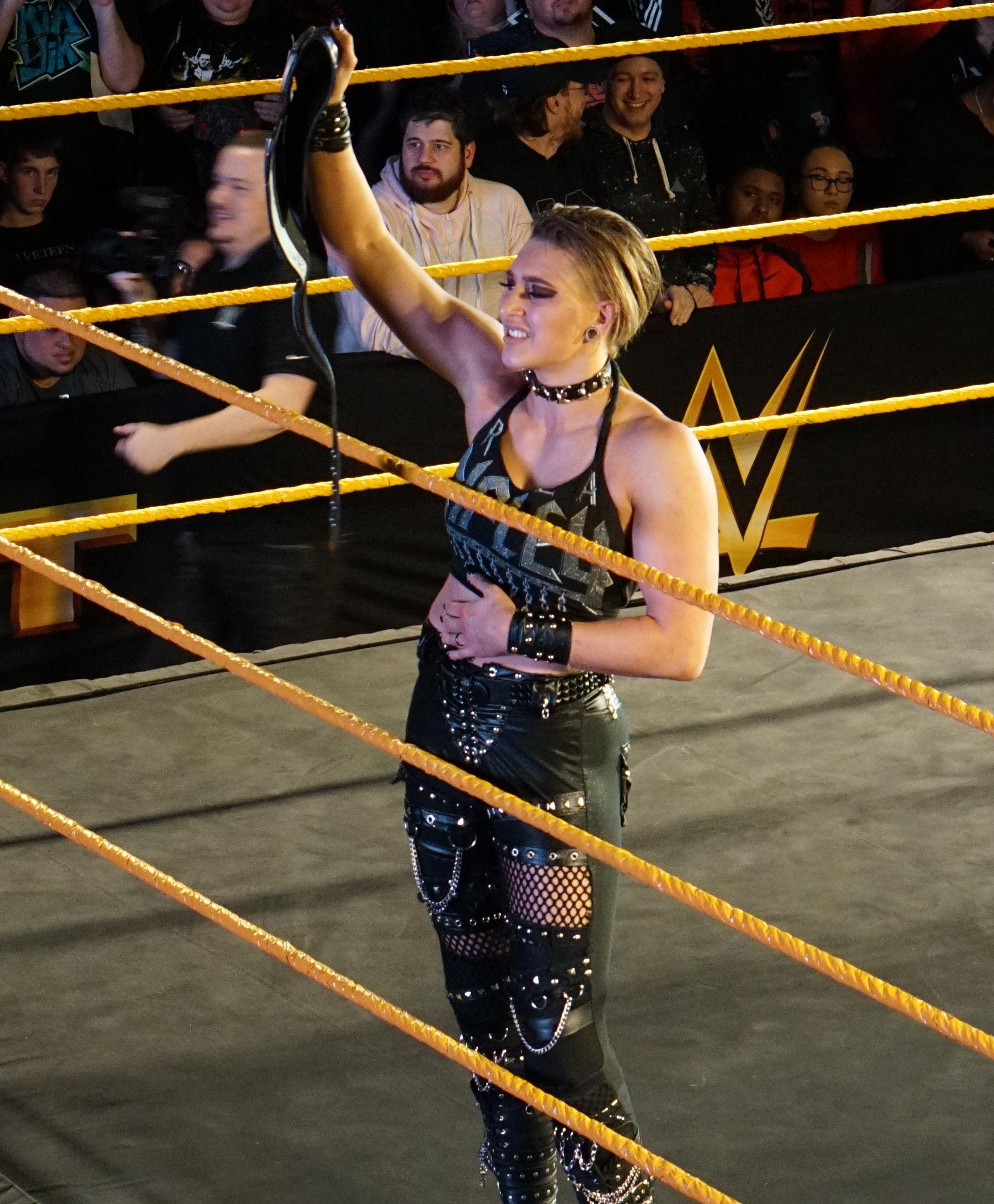 Ripley at a NXT live show in Buffalo, NY.